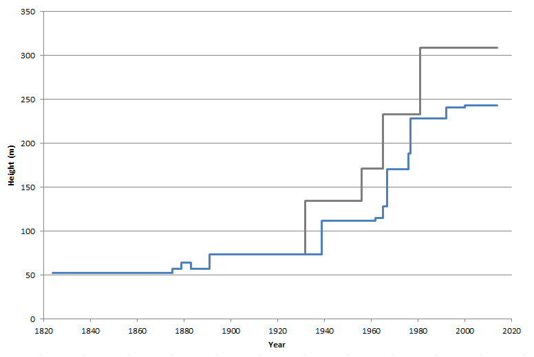 Sydney's tallest building (blue) and tallest structure (grey) from 1824 to 2014.